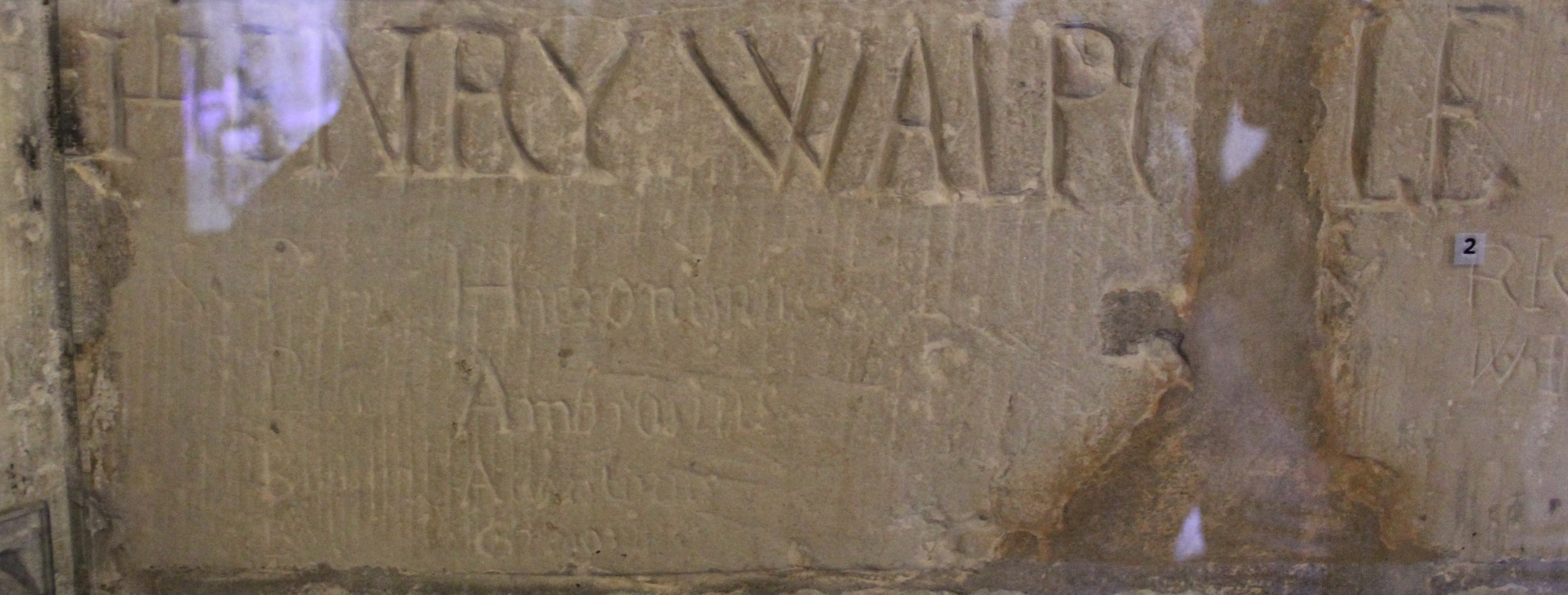 While incarcerated in the Salt Tower, Jesuit priest Henry Walpole carved his name in the plaster along with those of saints Peter, Paul, Jerome, Ambrose, Augustine, and Gregory the Great. Wikidata has entry Q17645576 with data related to this monument.